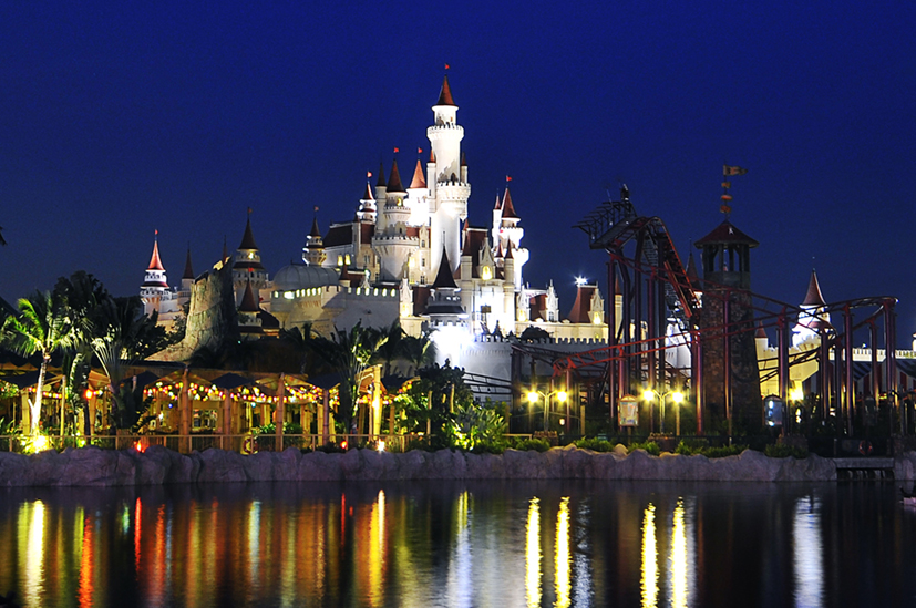 Universal Studios Singapore in the evening.